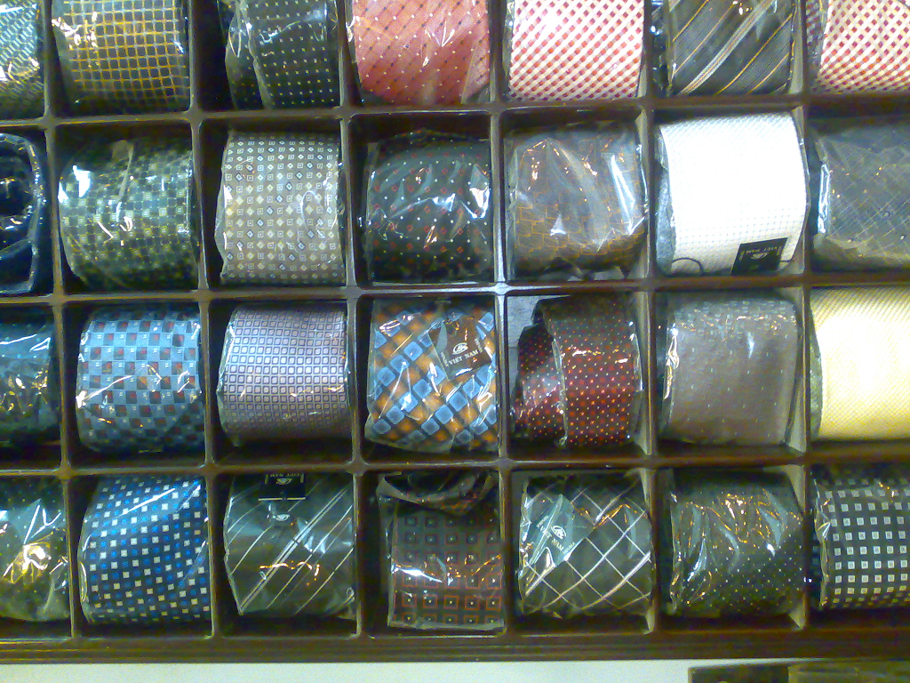 Neckties, made by silk in Vietnam